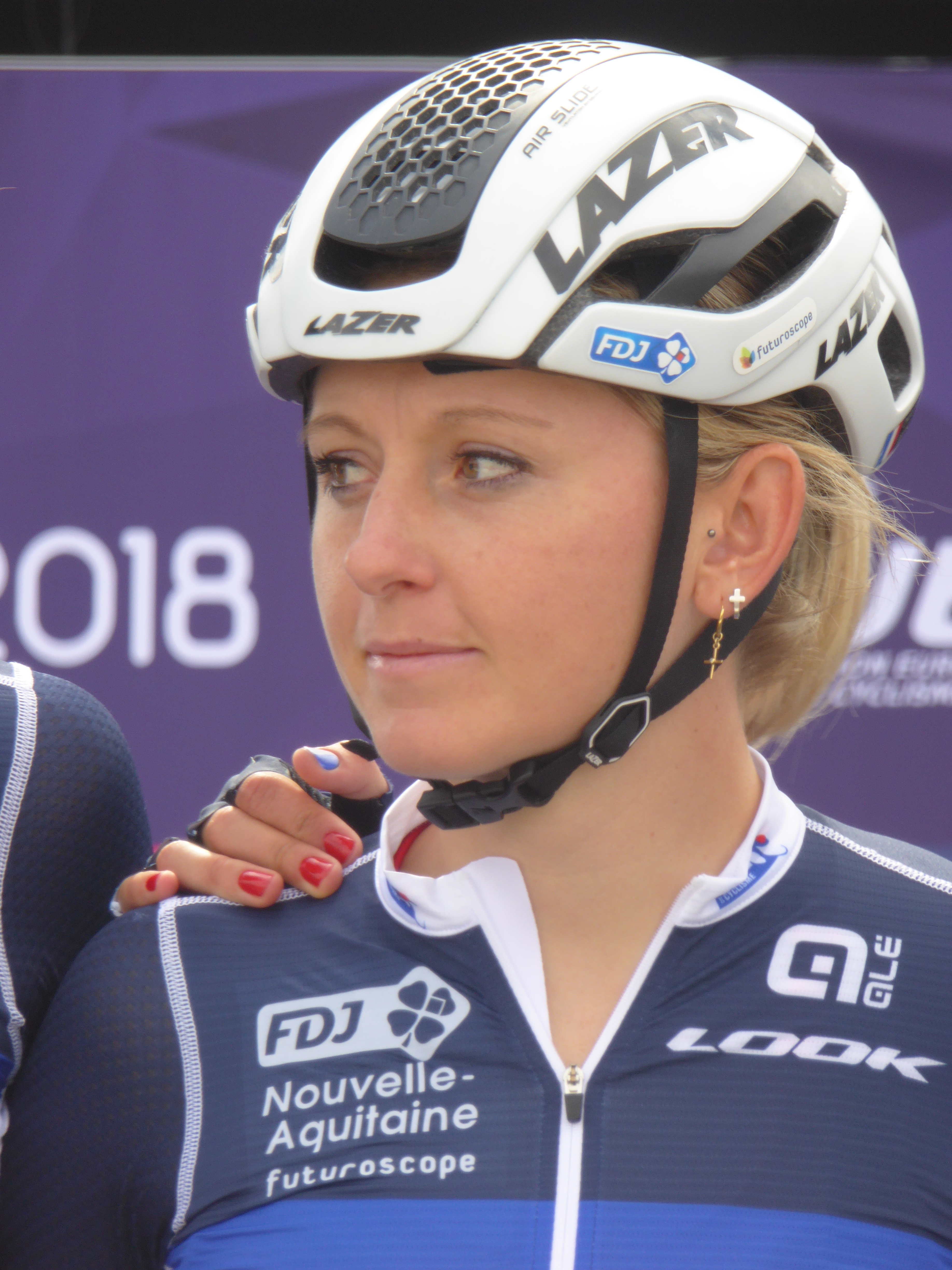 Charlotte Bravard (France), prior to the women's road race at the 2018 UEC European Road Cycling Championships in Glasgow.